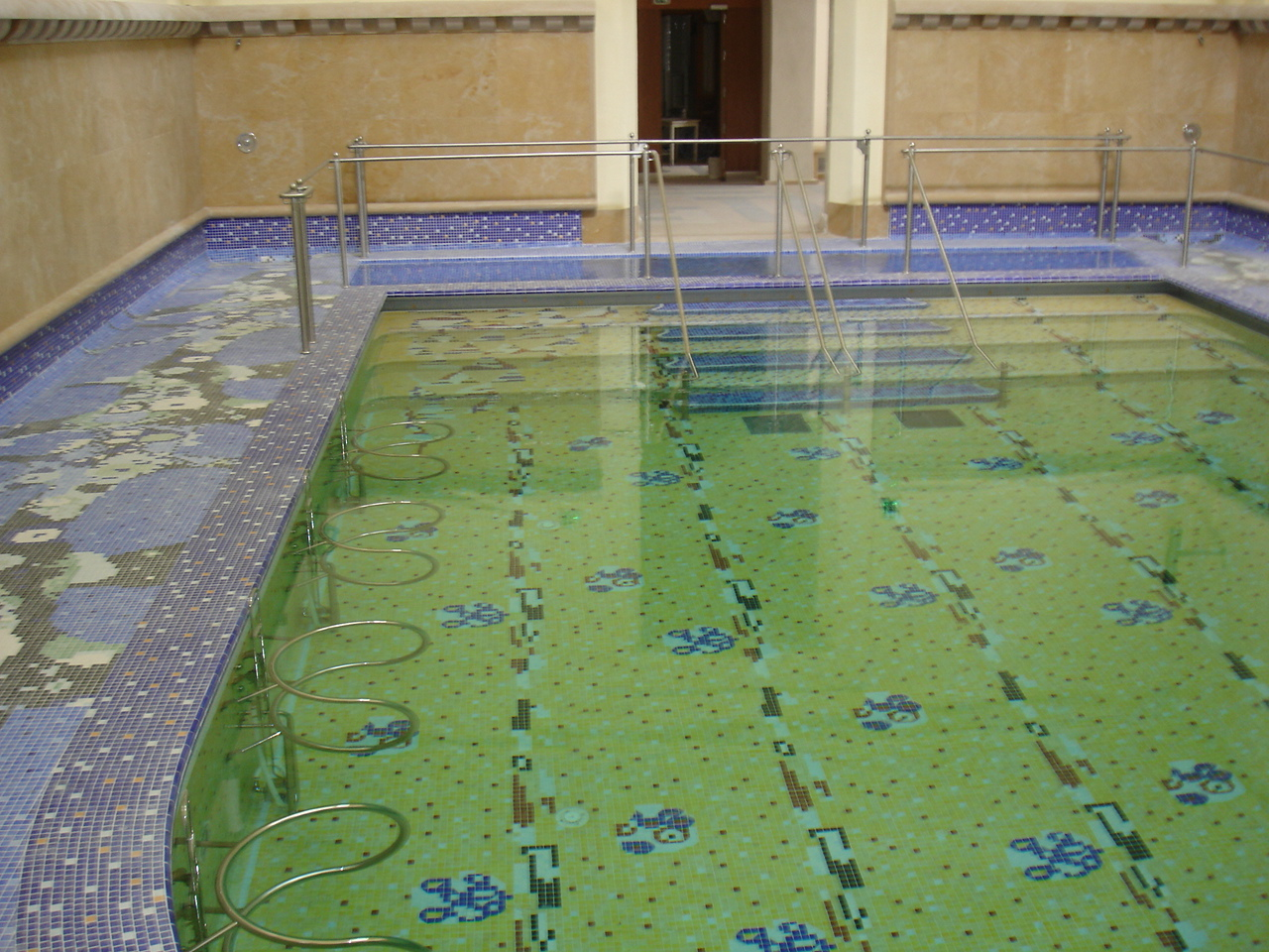 Thermal baths in Aix-les-Bains (France). Emaux de Briare mosaics